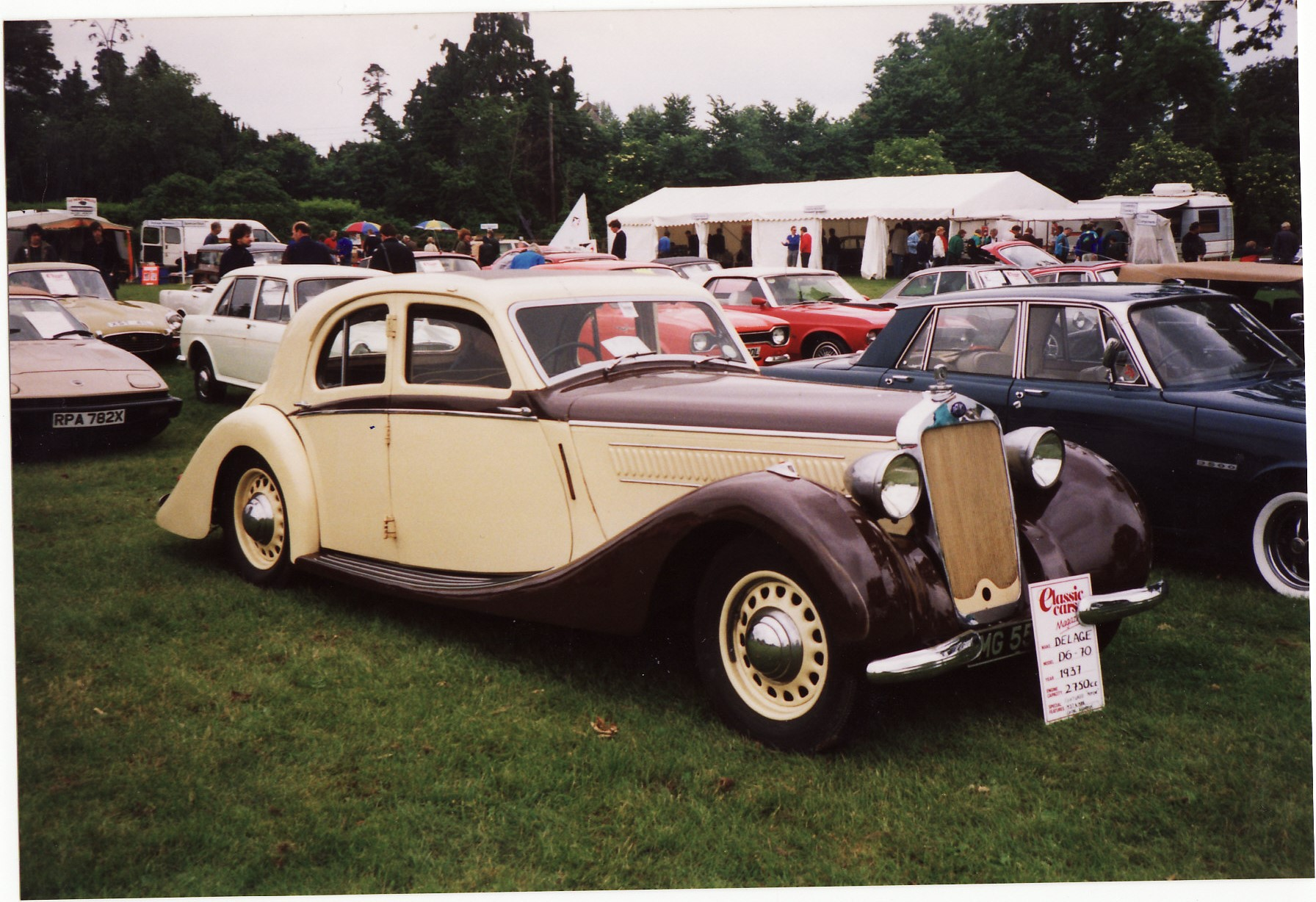 Spotted at a Rally at the National Motor Museum, Beaulieu in the 1990's.